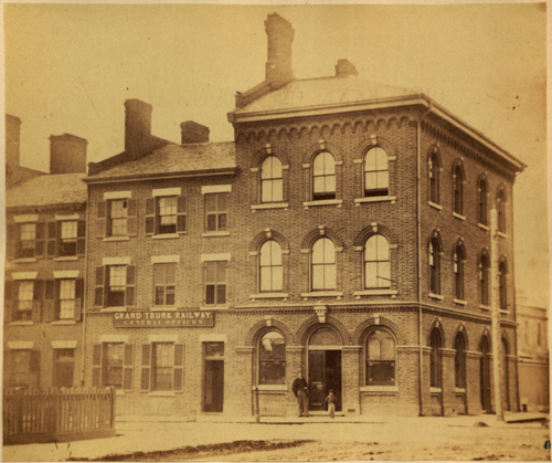 City Bank of Montreal (erected 1849) and Grand Trunk Railway General Offices, Bay and Wellington Sts., Toronto, Canada